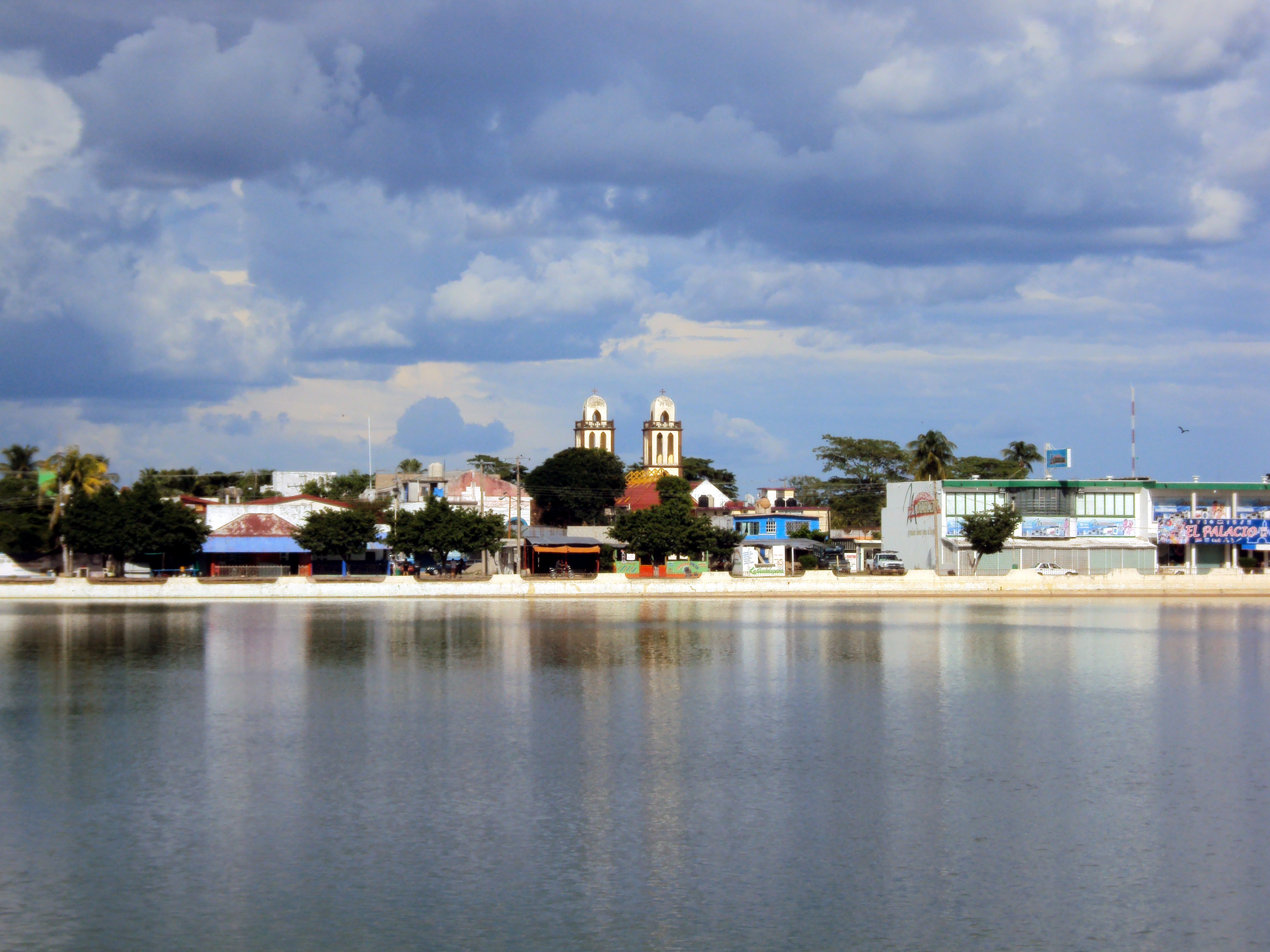 City Balancan, Tabasco, seen from the west end of the lake the Popalillo.